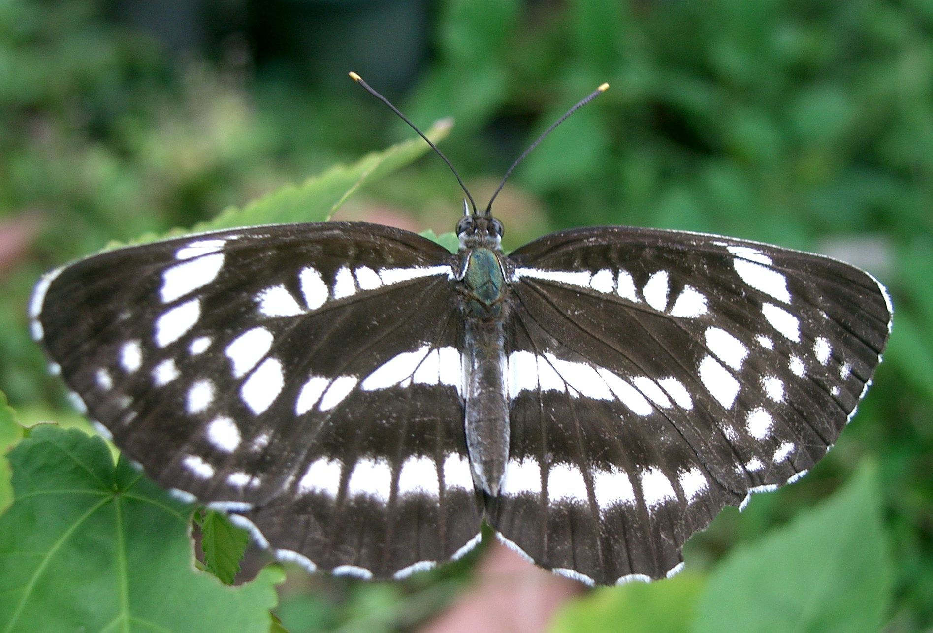 Neptis pryeri pryeri